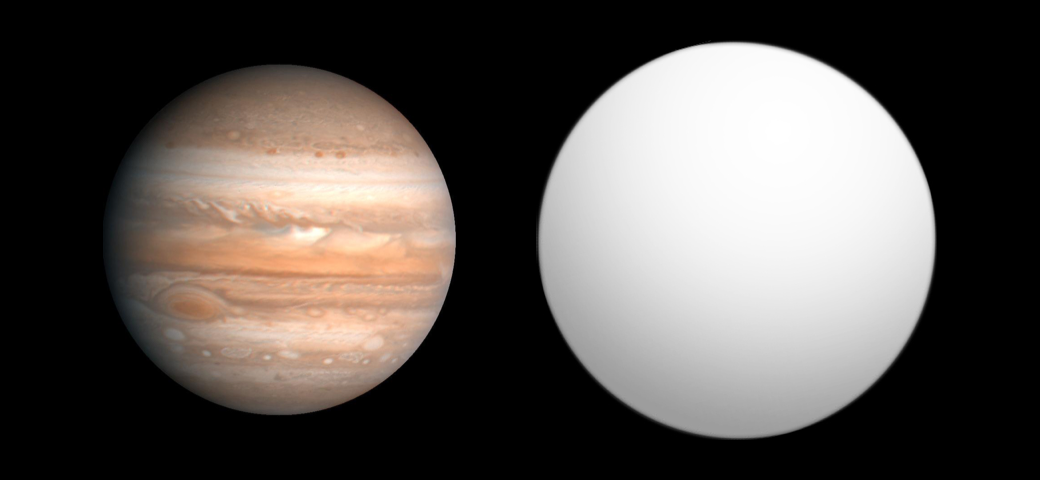 Comparison of best-fit size of the exoplanet SWEEPS-11 b with the Solar System planet Jupiter, as reported in the Extrasolar Planets Encyclopaedia[1] as of 2010-10-03. ↑ Extrasolar Planets Encyclopaedia (2010-09-30). Retrieved on 2010-10-03.